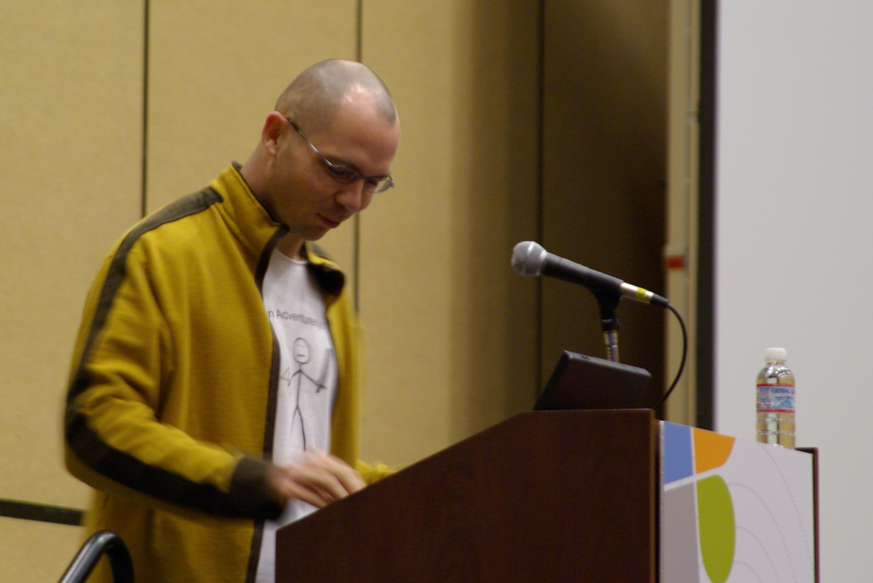 Jonathan Blow speaking at the Game Developers Conference in 2007.